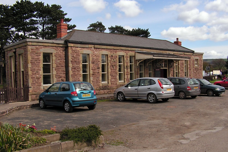 Winchcome railway station.